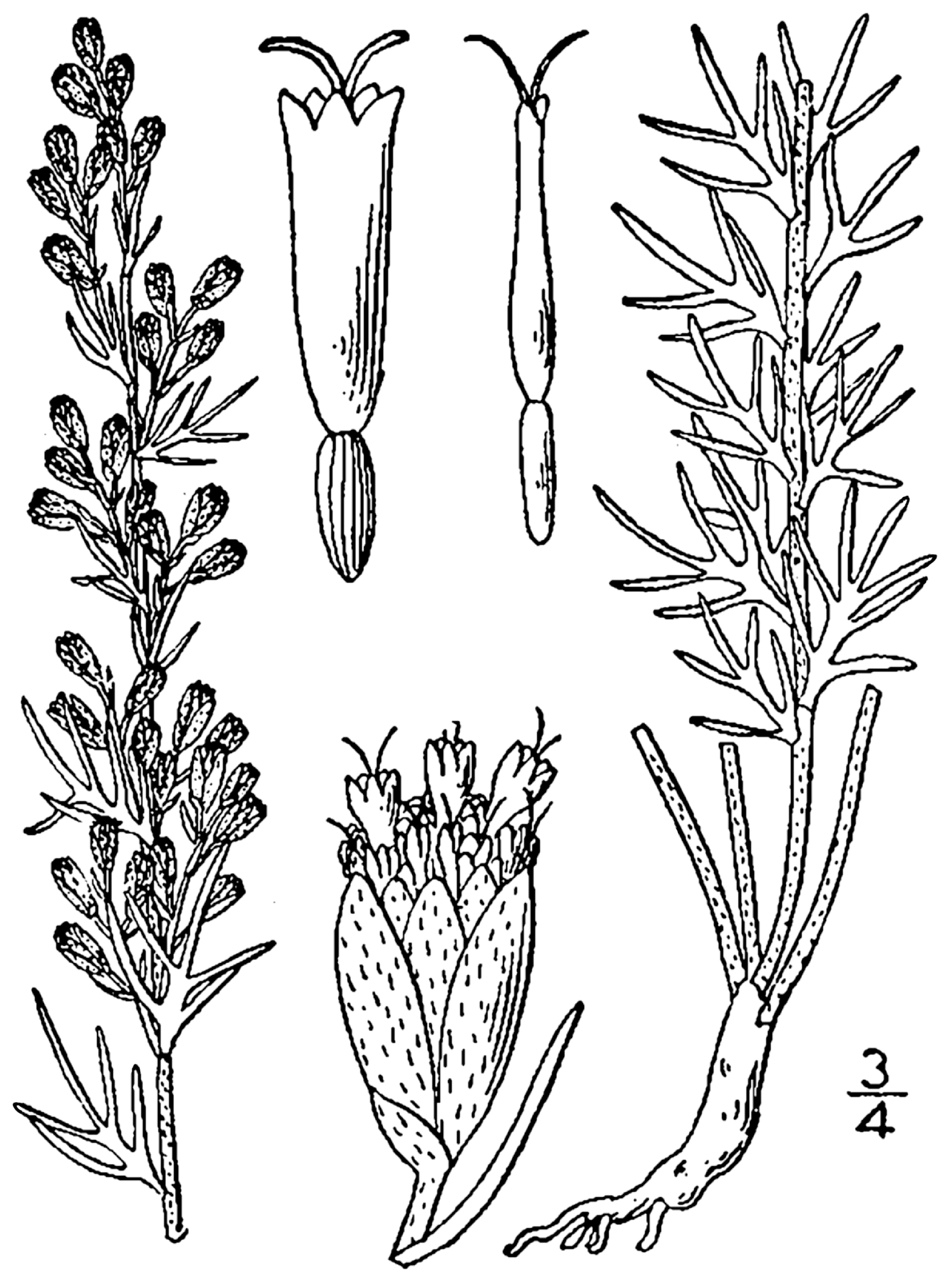 Artemisia carruthii Alph. Wood ex Carruth. - Carruth's sagewort